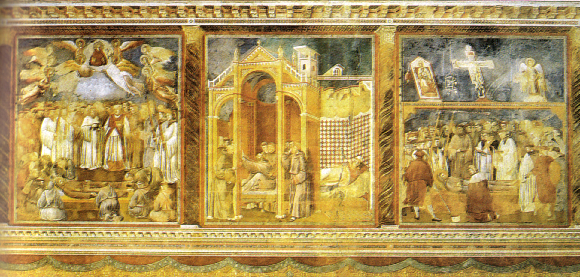 Legend of St Francis